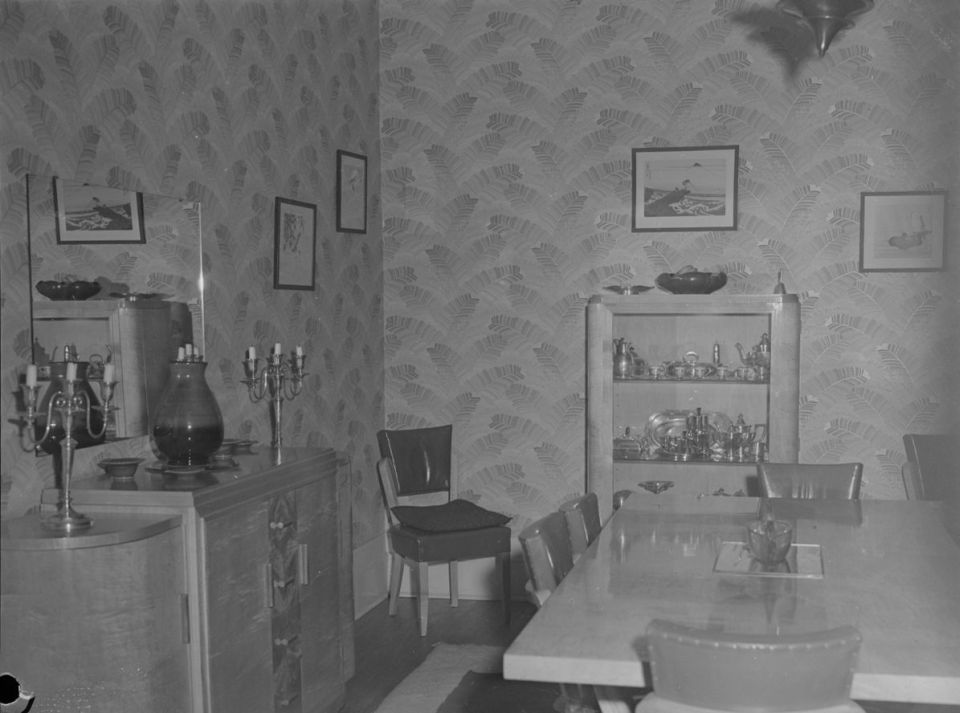 We see the dining room of the residence of Victor Barbeau writer who lives at 109 Côte-Saint-Antoine in Westmount.